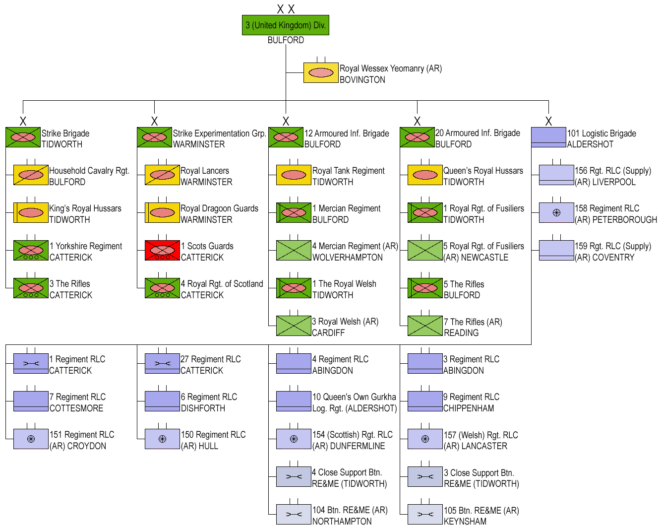 Structure of 3rd (UK) Division after the Army 2020 reform